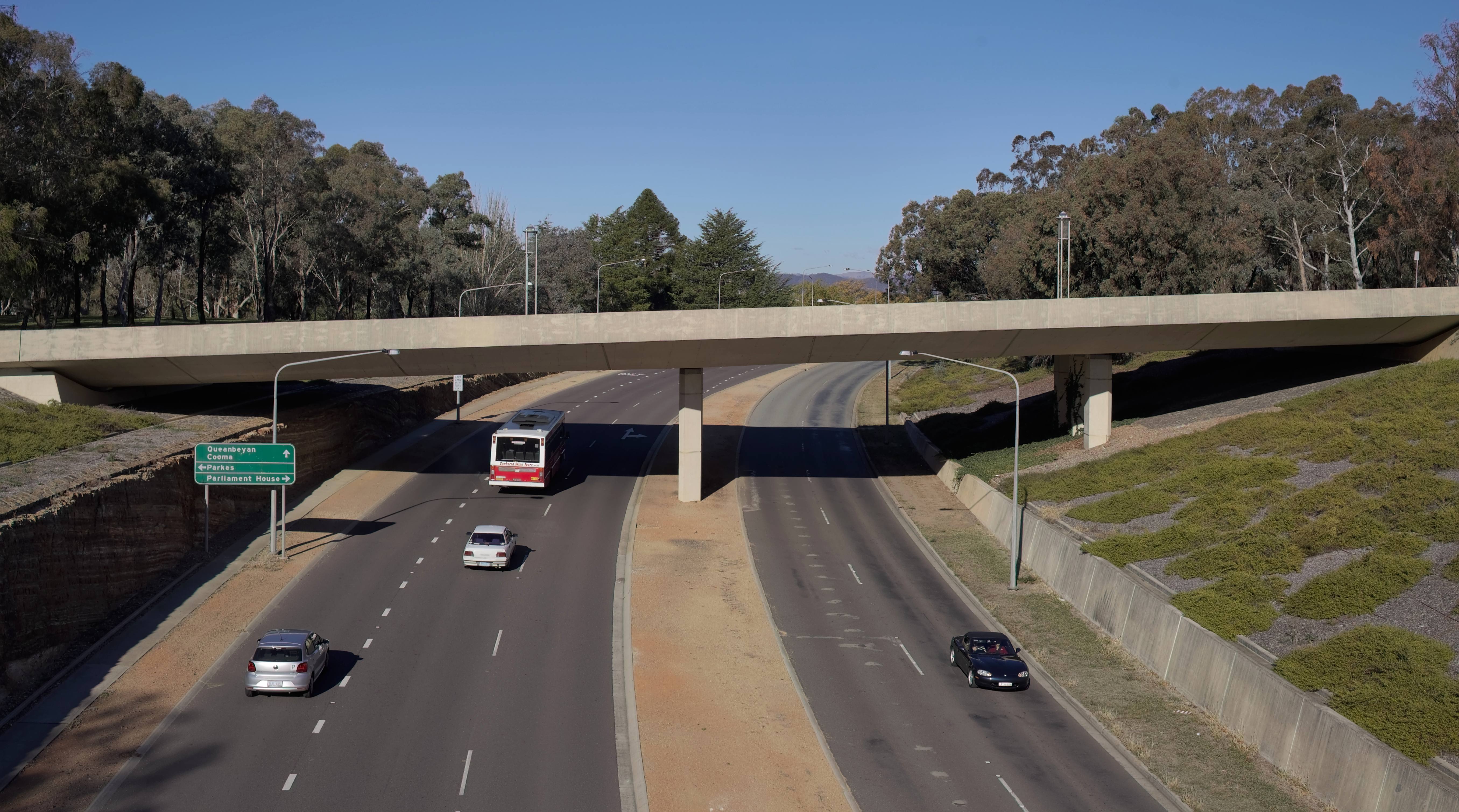 The bridge connecting Northborne Avenue with Parliament House in Canberra, Australia.